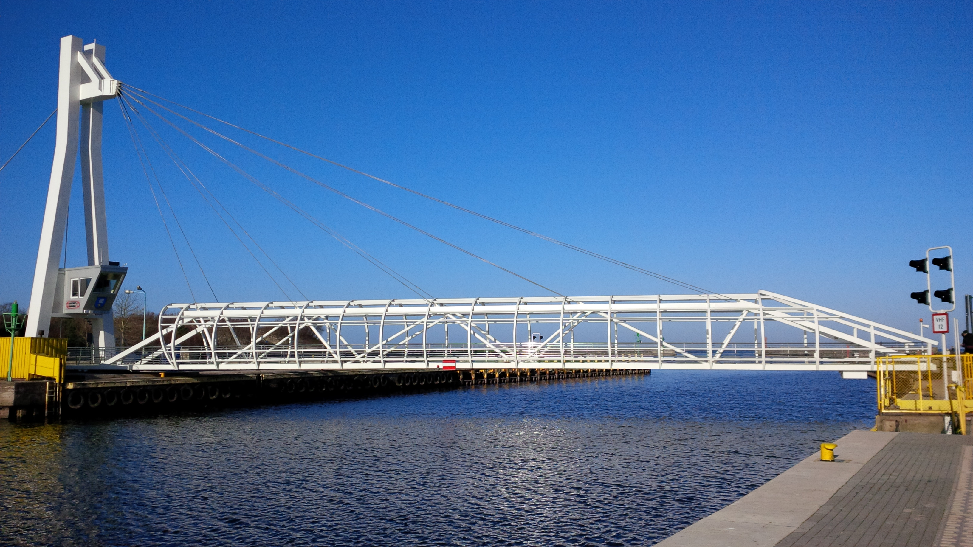 River mouth swing bridge in Ustka, PL (2014)